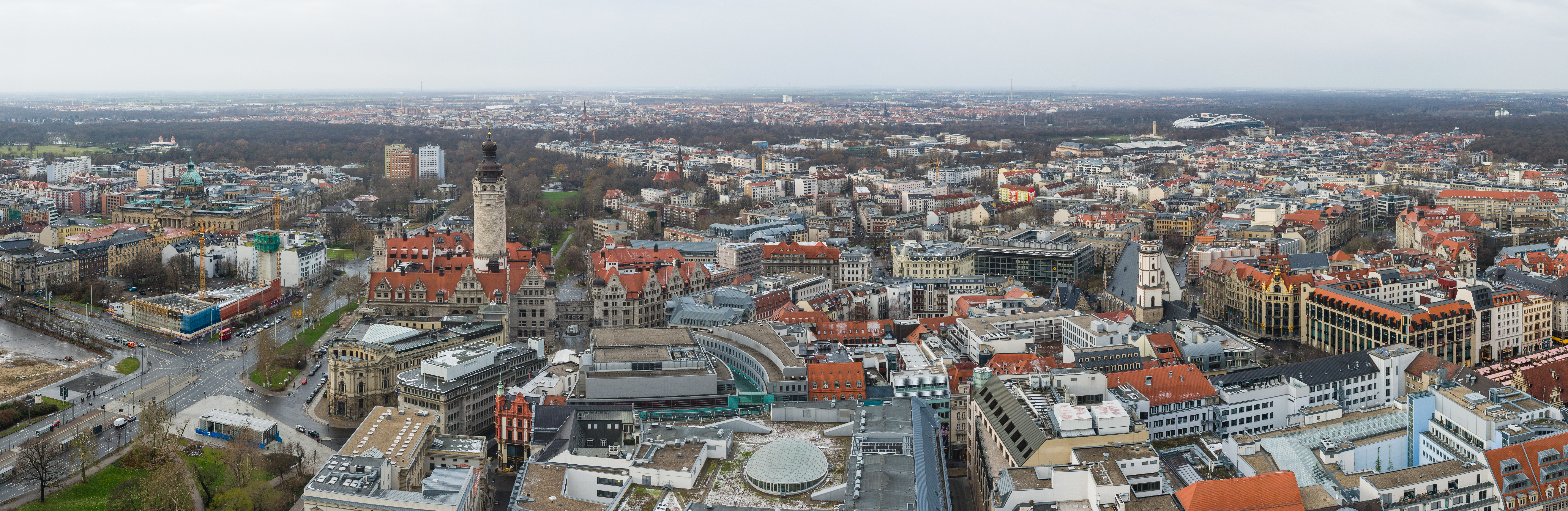 Panoramic view over Leipzig heading west